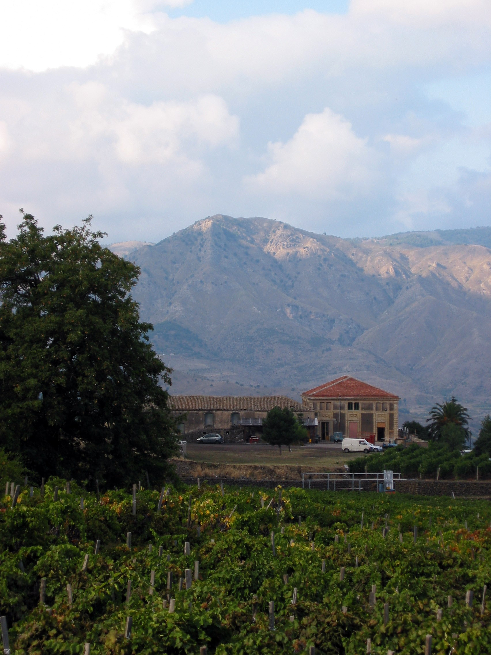 Vineyard in the shadow of Mt. Etna in Sicily